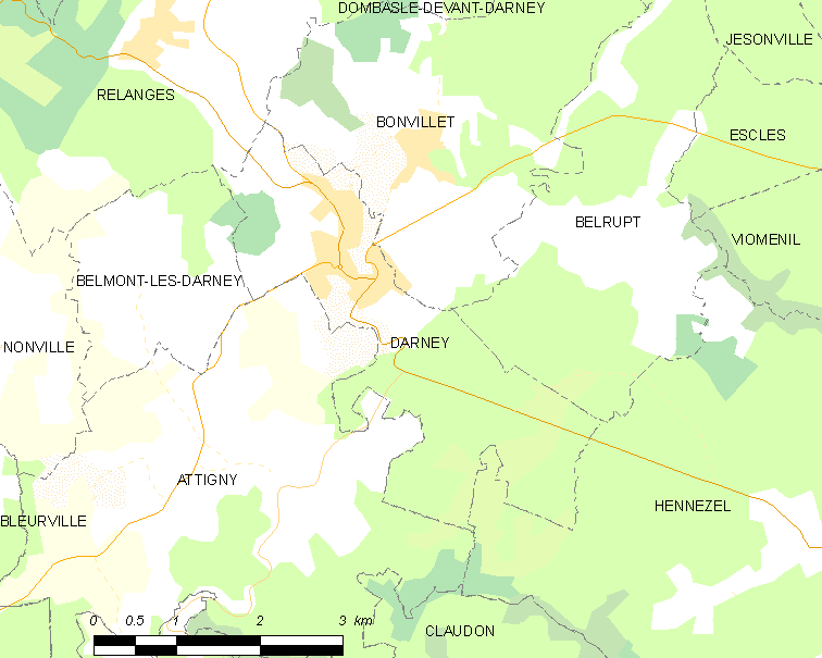 Map of French municipality Darney